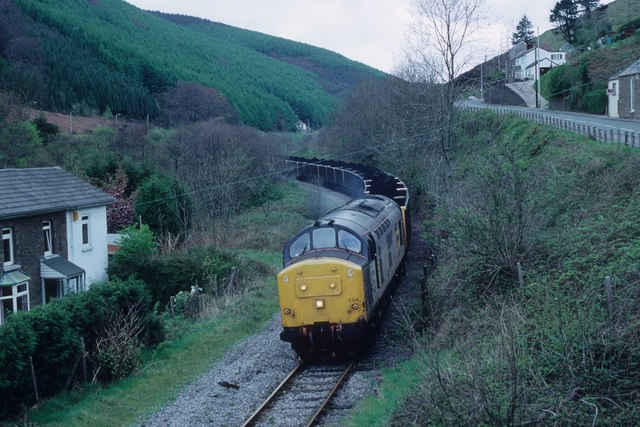 Coal heads south from the valleys